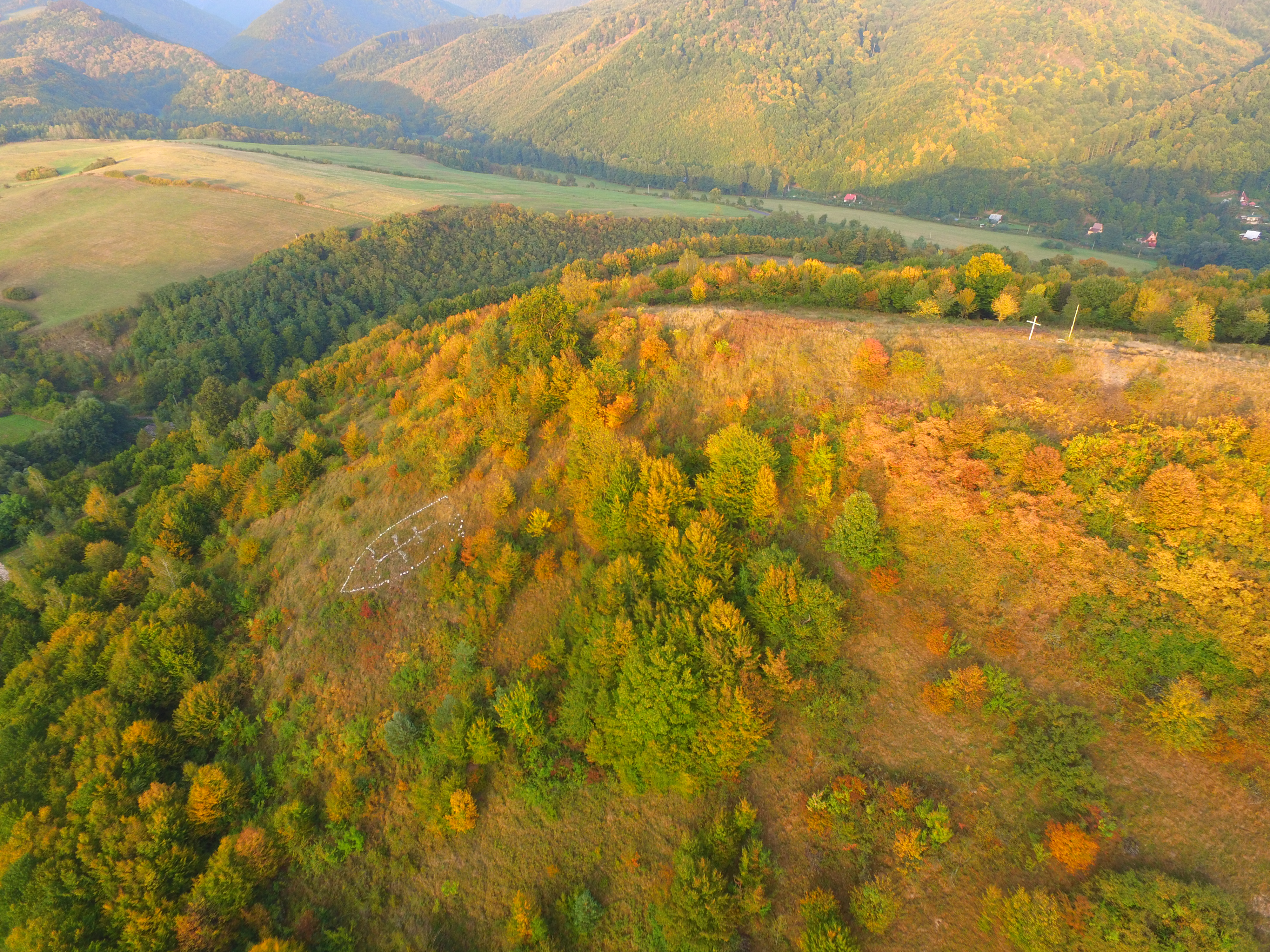 Štátny znak Slovenska a kríž na Chomku